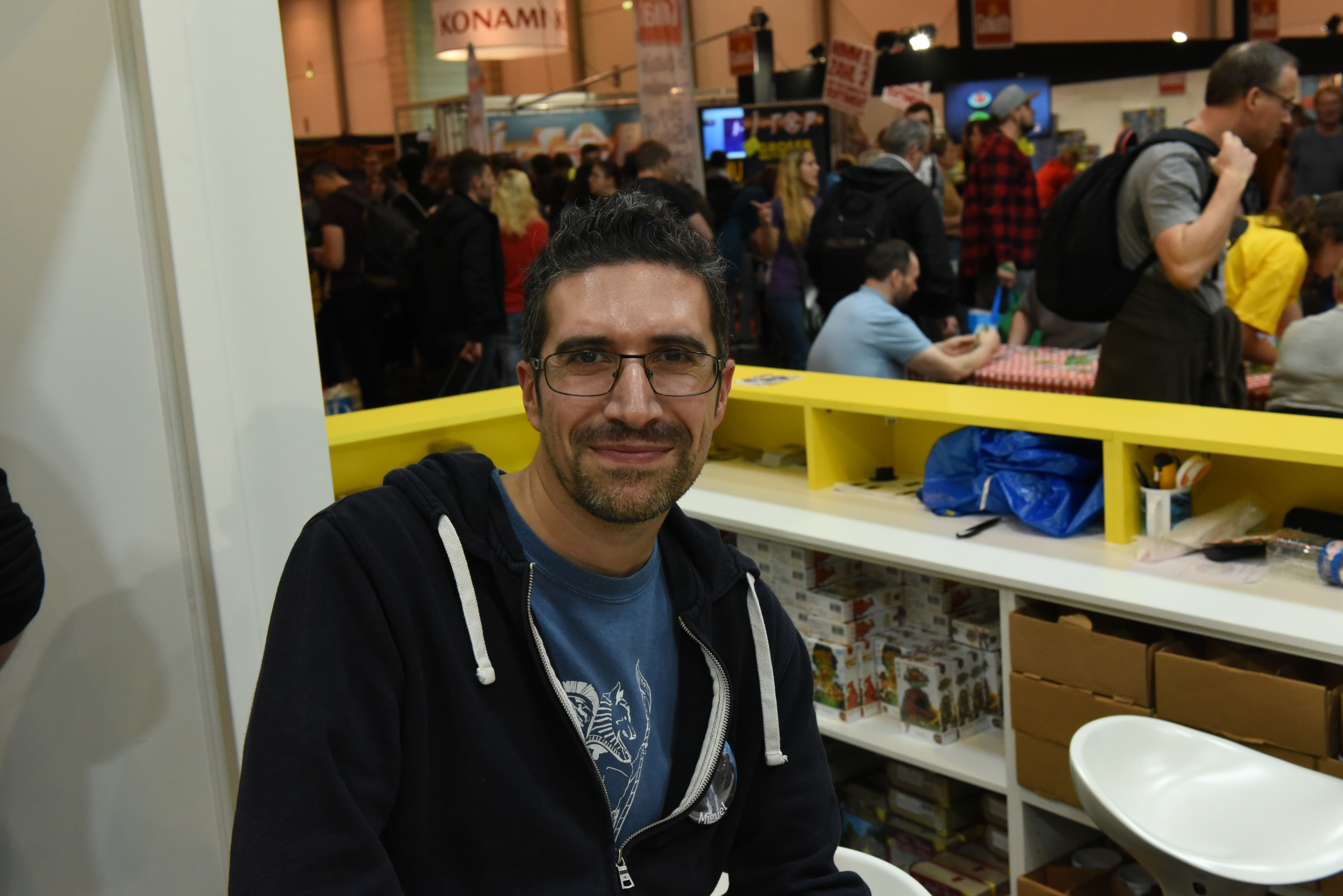 The illustrator Miguel Coimbra at the board game fair Spiel '17 in Essen, Germany.